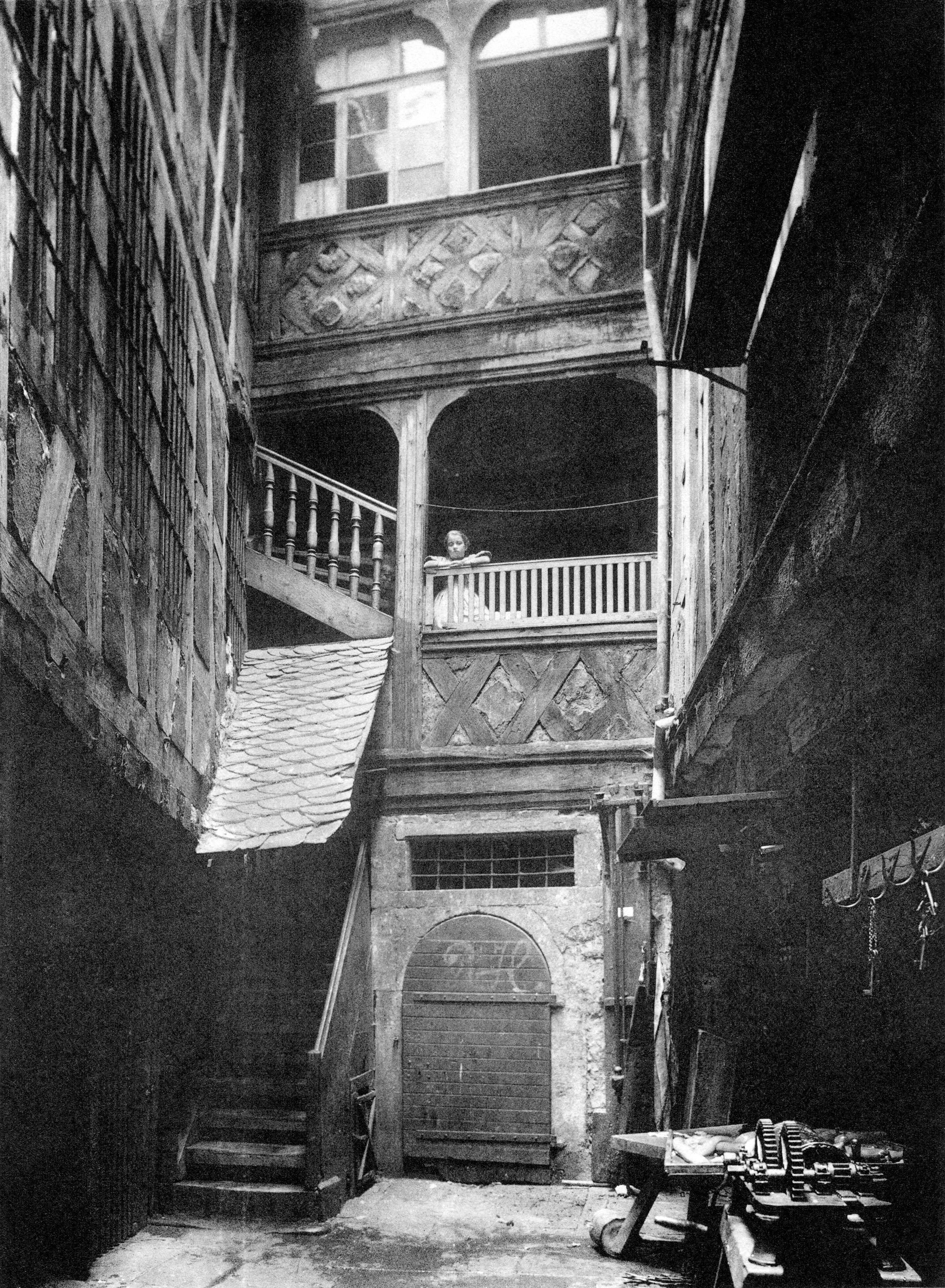 The Tuchgadern or the old Gaden (camera antiquae) are already known under that name in the 14th century. The Lane leads from the the Market under the Red House (the house with the 3 columns / Red House standing on columns) to the Coopers Lane, respectively the Cabbage Market, where the so called Schöppen Fountain is located. The chandlers selling their goods in the vaults where called the Gader-Leute or the Tuchgader, that is linen trader. In later times the Gaden were changed into Schirnen. The alleyway consists of only seven houses. The picture of the little courtyard of one of these houses behind Tuchgaden No. 9 is a vivid example of the old architecture based mainly on wood. The staircase, wooden cladding and decoration, balustrade etc. we look upon appear old-fashioned.